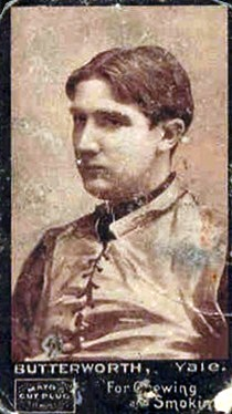 Mayo's Cut Plug football card of Frank Butterworth